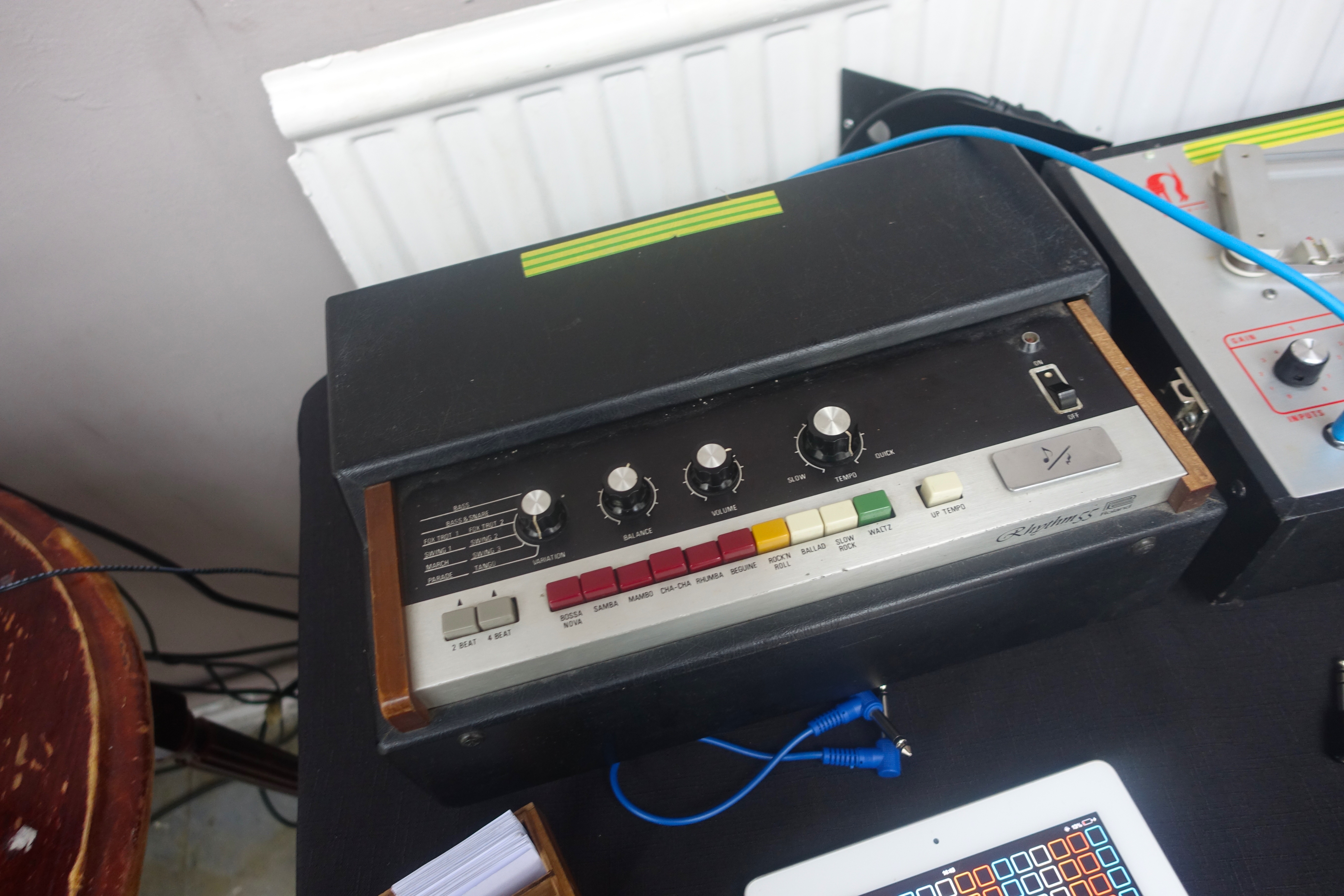 Ace Tone TR-55 Rhythm 55 (1972)